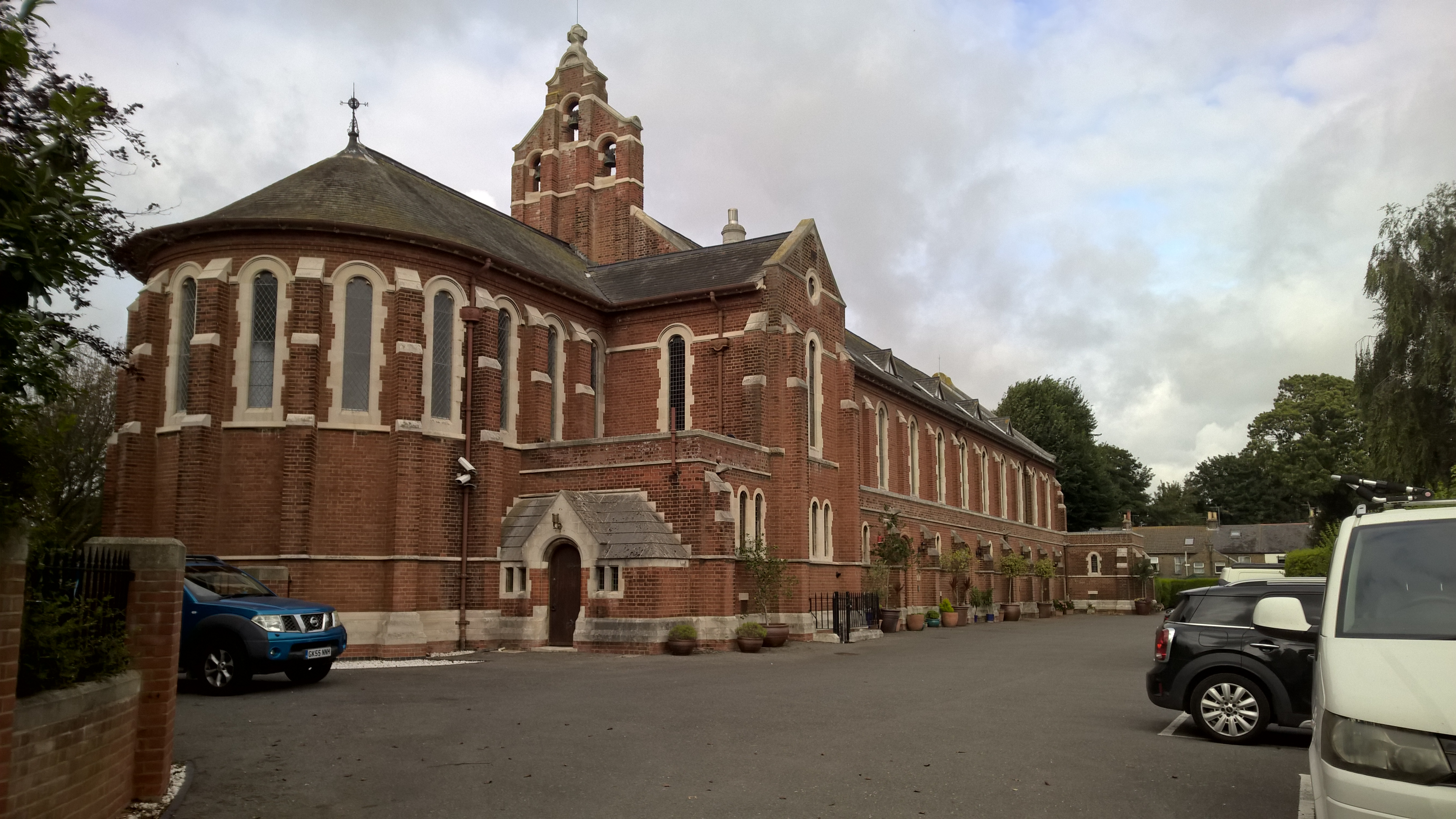 The Church was built on a site alongside the Drill Field; it was consecrated in January 1907. It is similar in design to the Naval Barracks churches at Chatham and Eastney. Following the departure of the Royal Marines School of Music the church was converted into flats.